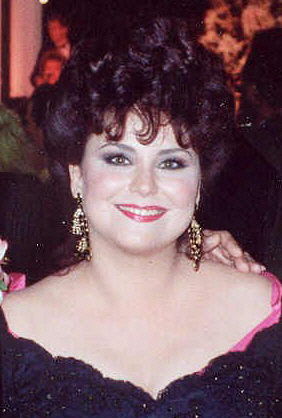 Delta Burke at the Governor's Ball after the 1990 Emmy Awards